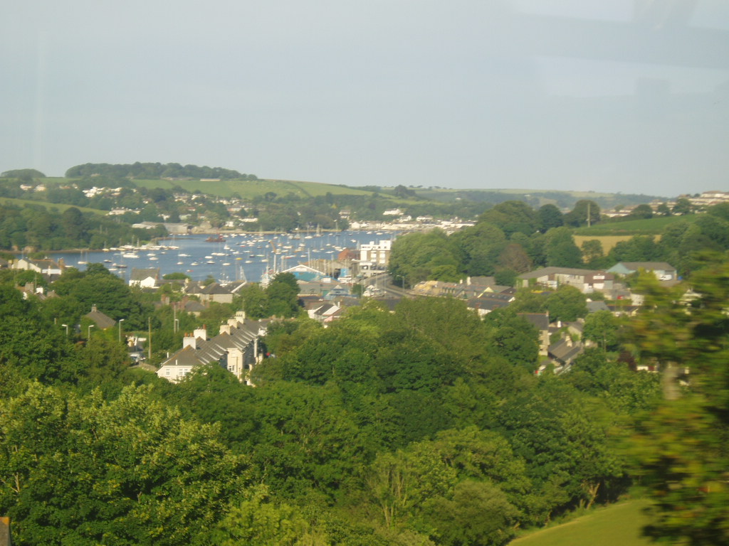 The view of Penryn from the Falmouth-Truro train. Taken by me in June 2005. Mocyoung 23:29, 14 August 2006 (UTC)